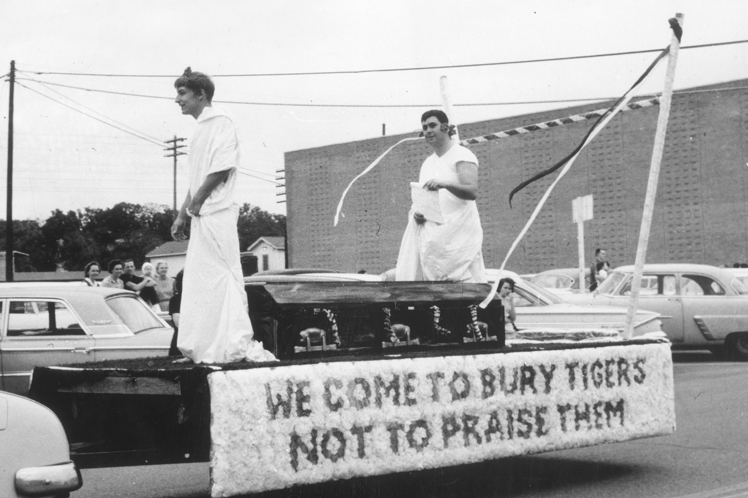 Arlington State College, two students dressed as Roman patricians riding on homecoming float with sign "We come to bury Tigers not to praise them".